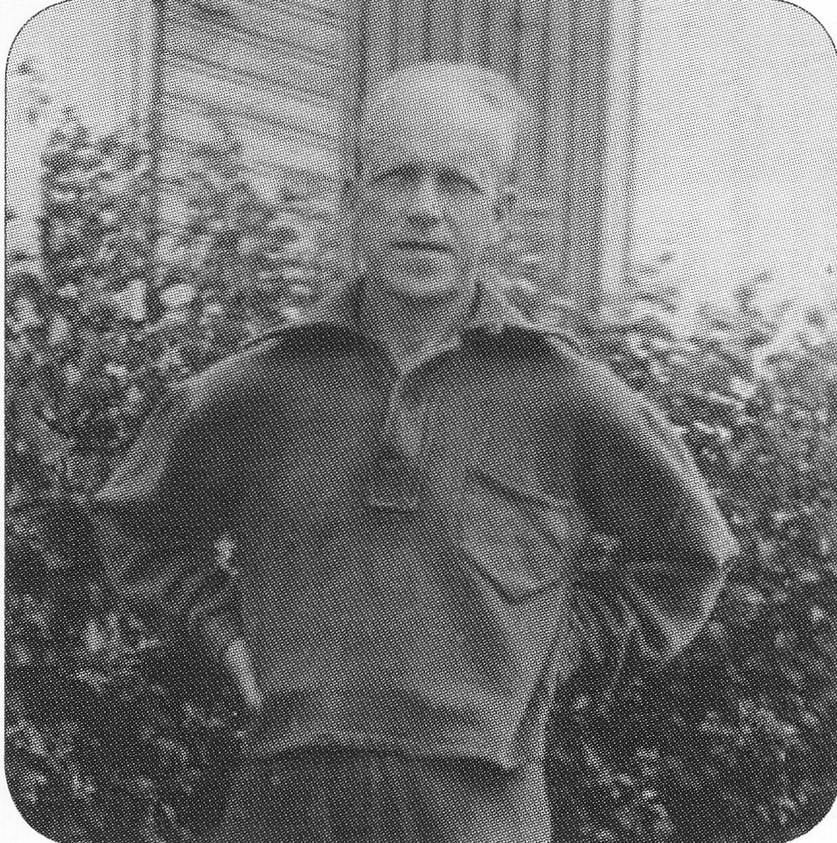 Hjalmar Ruotsalainen